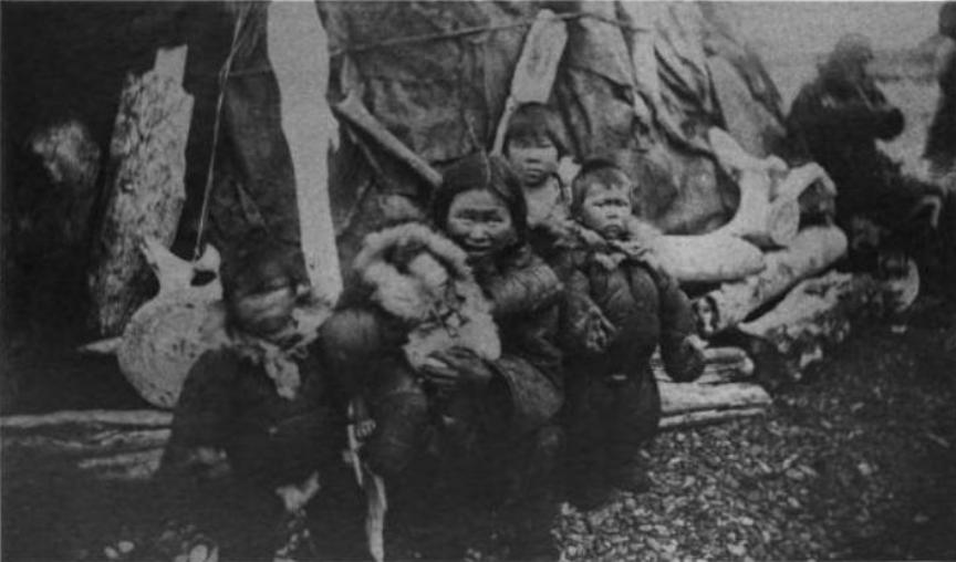 Three small children and a mother holding an infant, photographed in front of a yaranga.